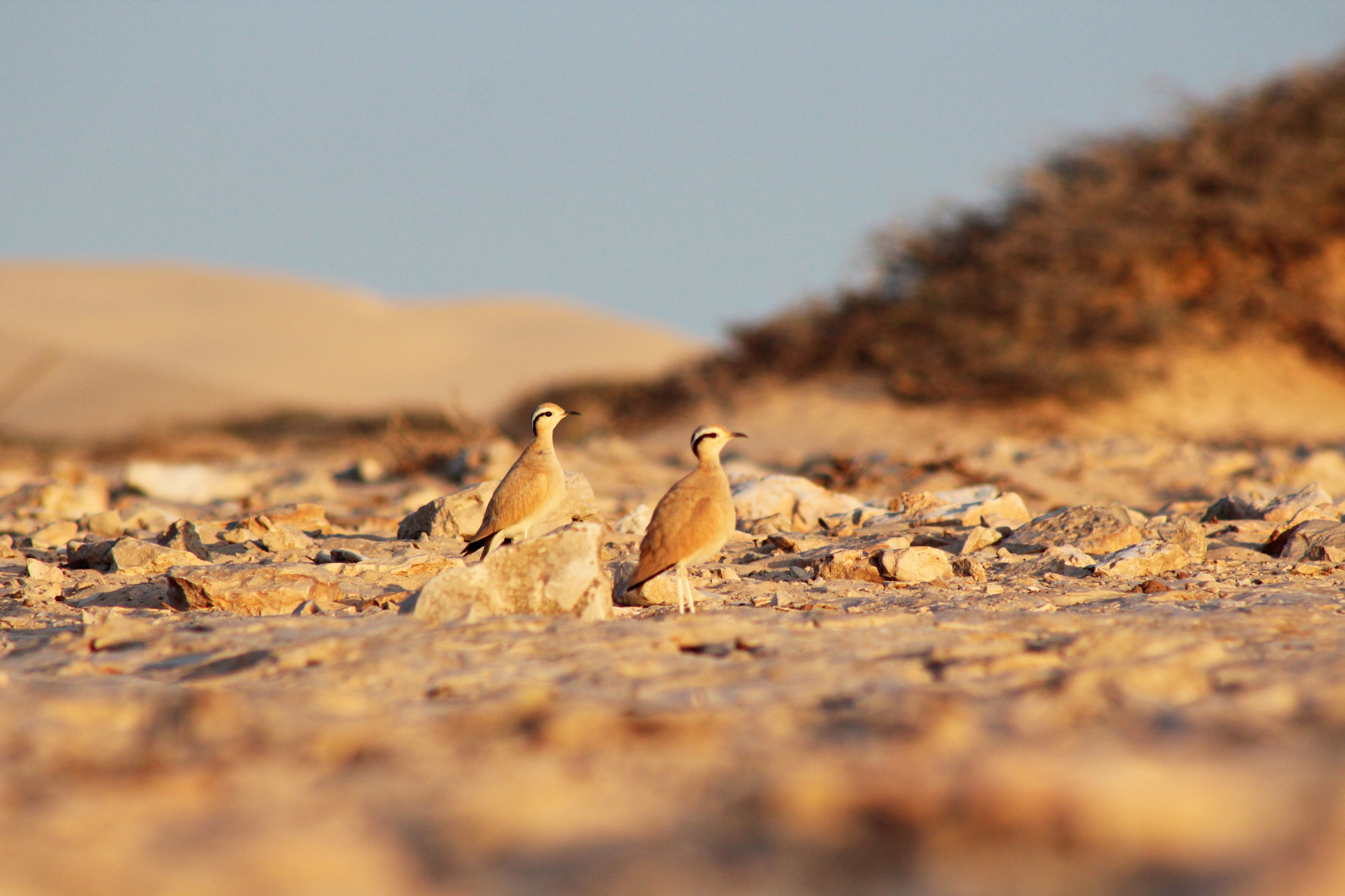 Cursorius cursor, taken in the station of aclimation Safia near the Western Sahara-Mauritania border, south of Dakhla.